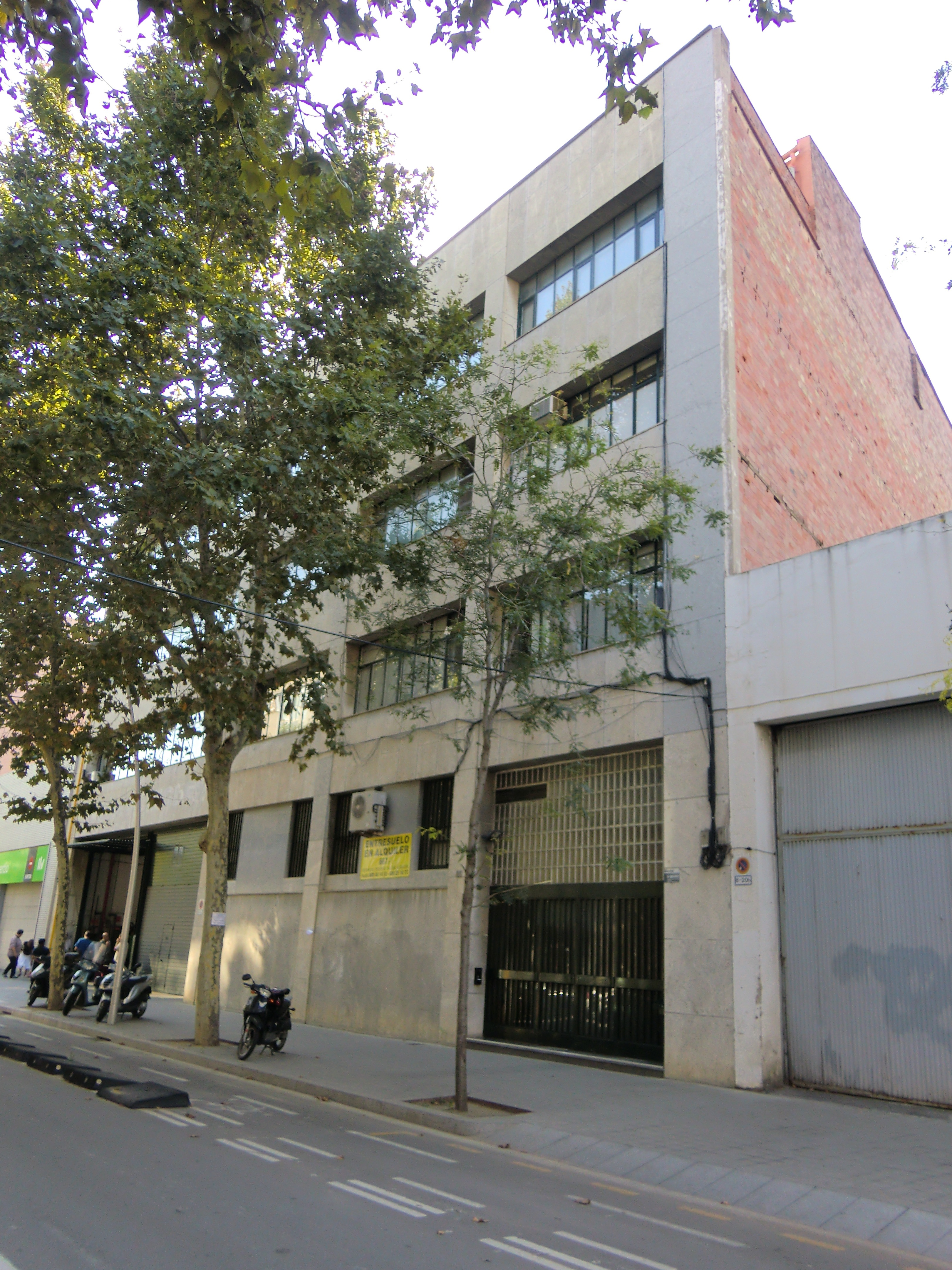 Ediciones Glenat España, S.L. (at the 4th floor). Sancho de Ávila st., 83, Barcelona, Catalonia.